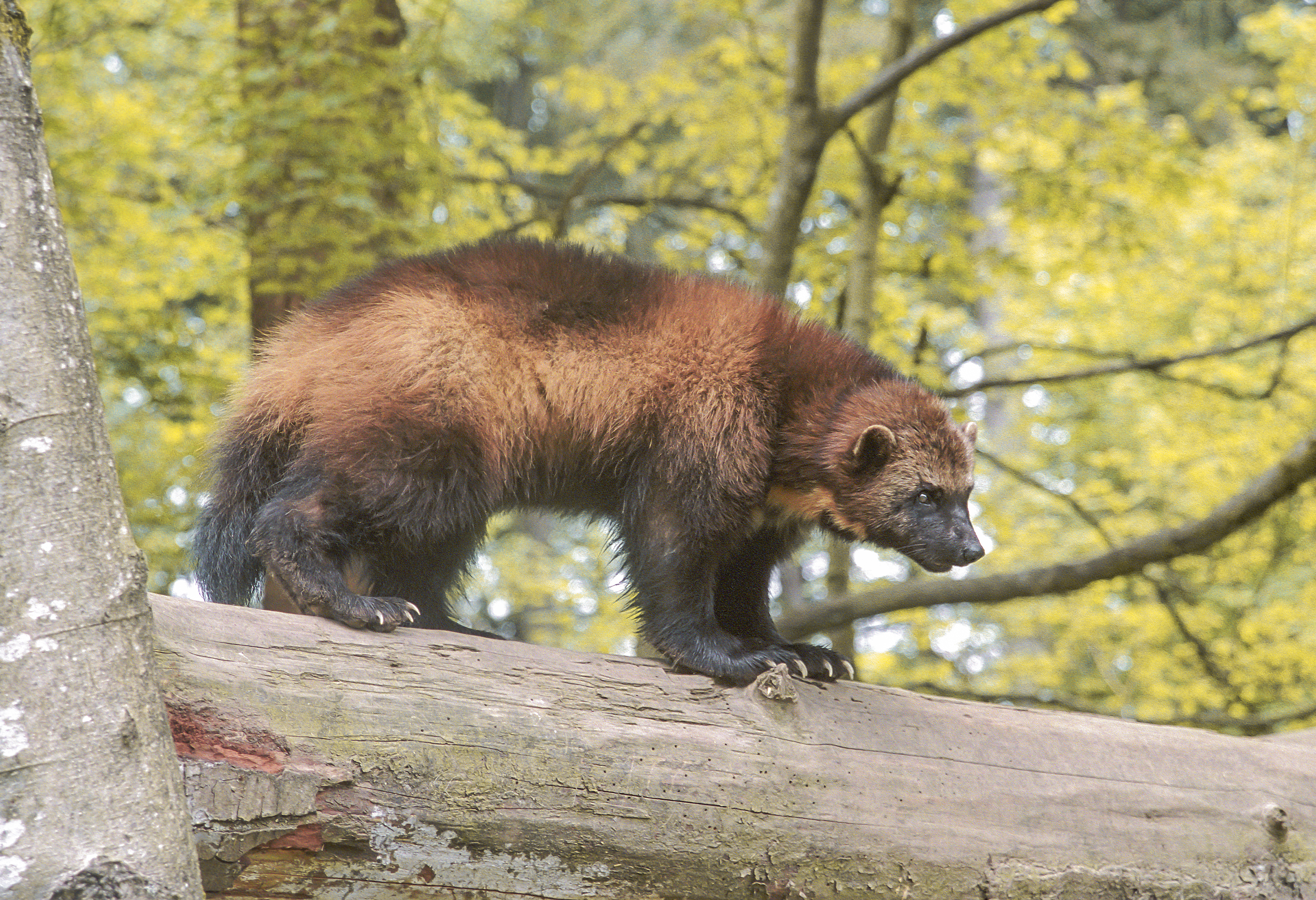 The wolverine, Gulo gulo is the largest land-dwelling species of the family Mustelidae (weasels).